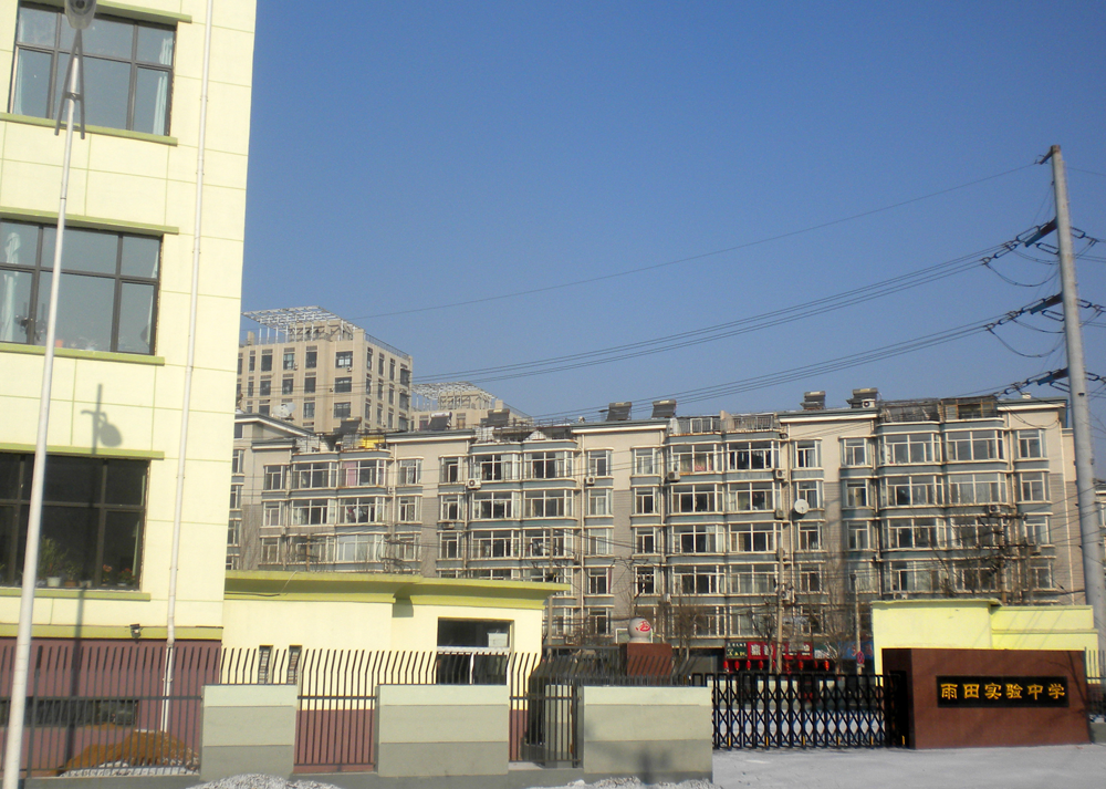 The gate of East Branch of Yutian Middle School